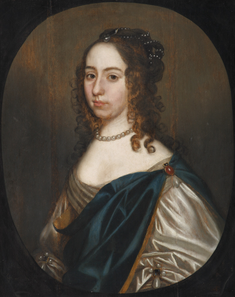 Oil painting on panel, Louise Henriette of Orange-Nassau (1627 - 1667) [Princess Henrietta Maria, Princess Palatine, Princess of Siebenbürgen, Transylvania (1626-1651)] by Gerard van Honthorst (1590-1656). Half-length portrait, to left in white satin dress and blue-green cloak clasped at left shoulder, wearing a pearl necklace and pearls in her hair.